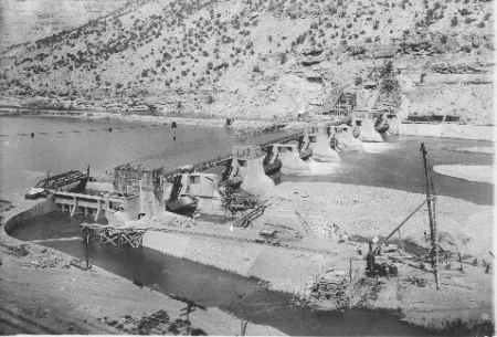 Roller Dam, De Beque Canyon. US Department of the Interior photo. John Page Collection, Loyd Files Research Library, Museum of Western Colorado, 1981.134 #84